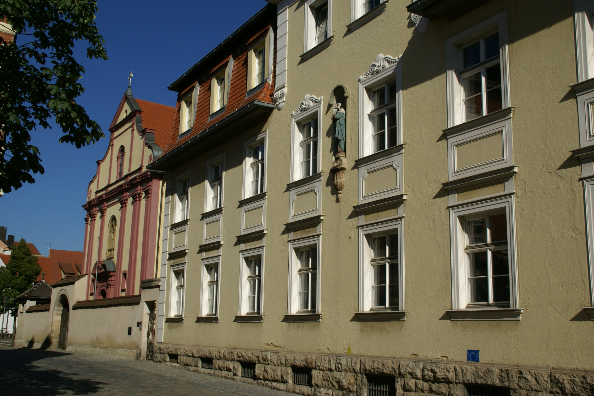 Paulanerkirche (St. Paul's Church) and former military hospital, now Amtsgericht (local court), Paulanergasse in Amberg, Germany